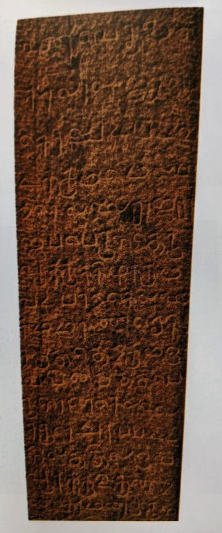 Rajaraja tiruketishwaram 1